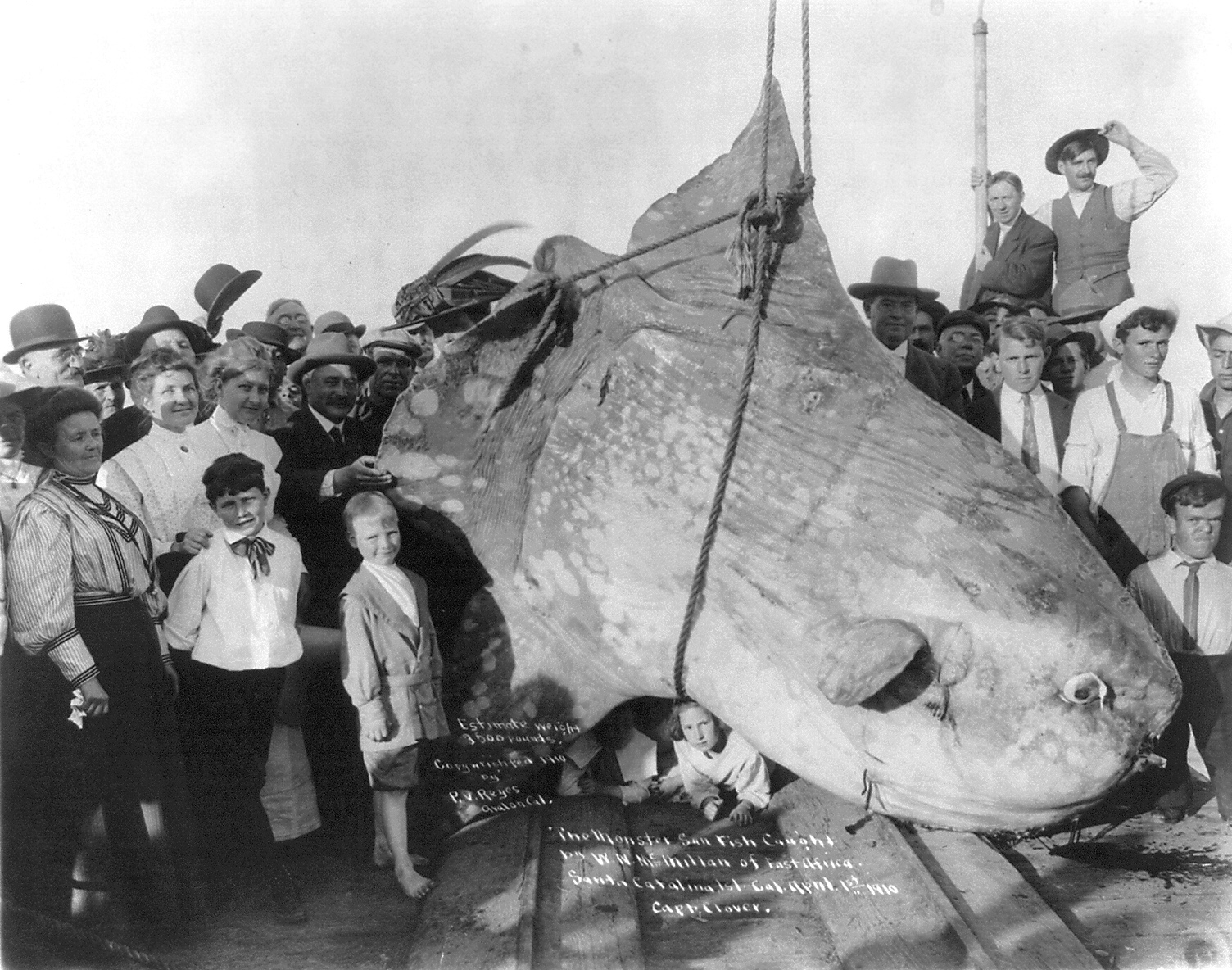 An enormous ocean sunfish (Mola mola), caught by W.N. McMillan of E. Africa, at Santa Catalina Isl., Cal. April 1st, 1910. Its weight was estimated at 3,500 pounds.